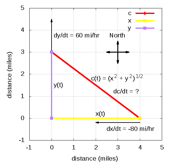 Illustration of use of the chain rule